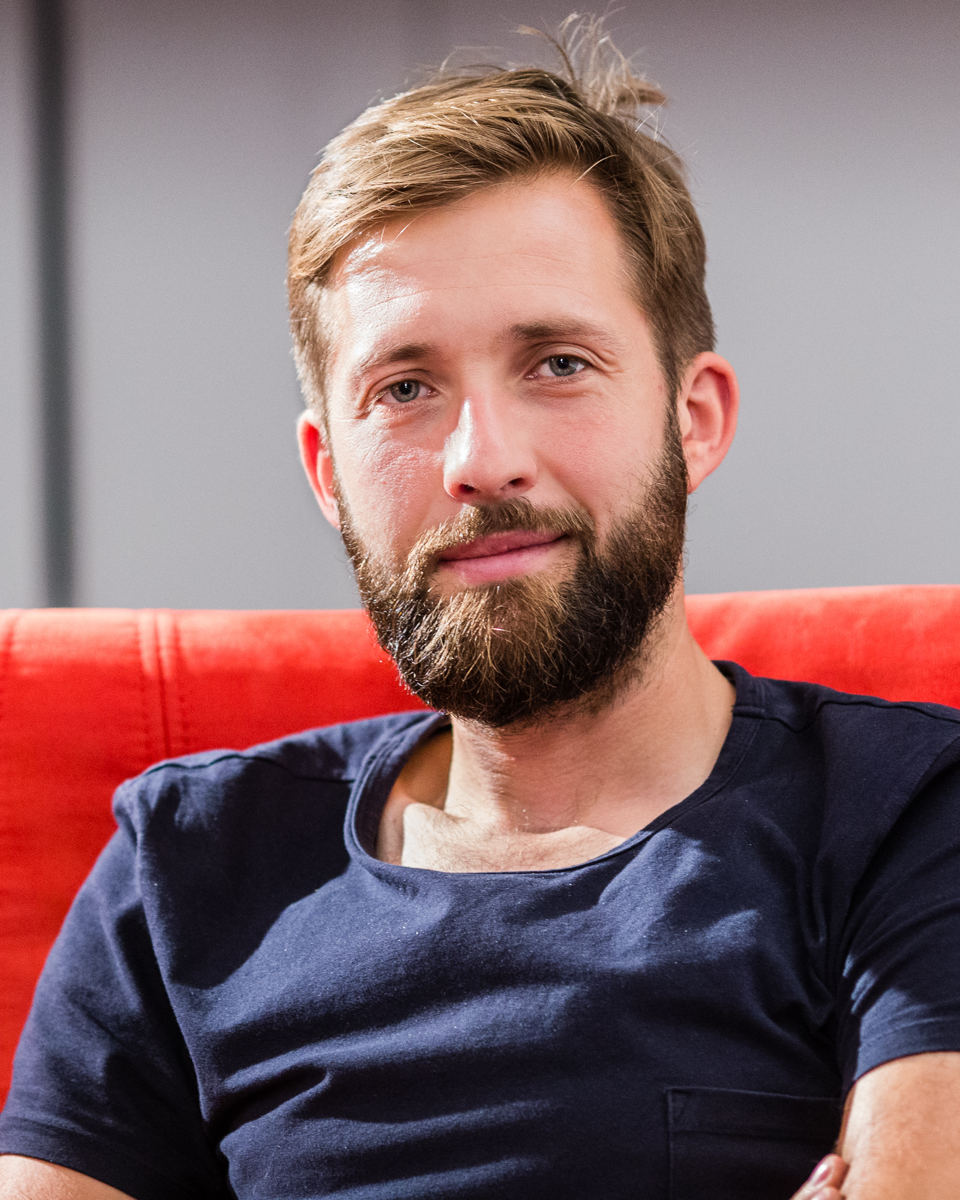 Jakub Kornhauser on Authors’ Reading Month 2019, Wrocław, Poland